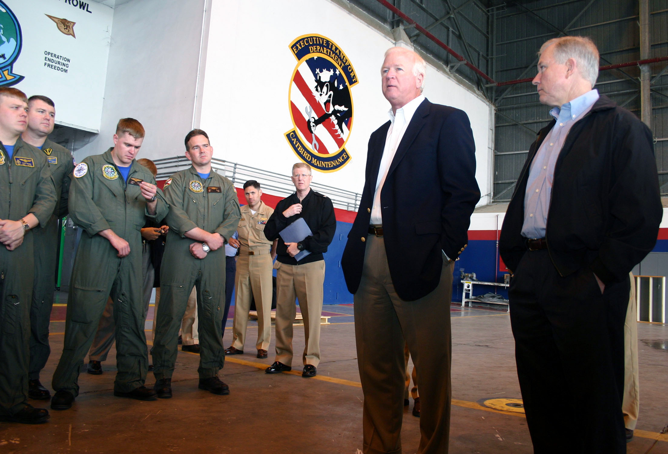 Naval Air Station (NAS) Sigonella, Sicily (Apr. 16, 2004) - Georgia Senator Saxby Chambliss and Alabama Senator Jeff Sessions talk to Sailors assigned to Patrol Squadron Two Six (VP-26) in the squadron's hangar. The Senators visited NAS Sigonella to tour the base and meet with Sailors. NAS Sigonella provides logistical support for Commander, Sixth Fleet and NATO forces in the Mediterranean area. U.S. Navy photo by Journalist 3rd Class Stephen P. Weaver. (RELEASED)